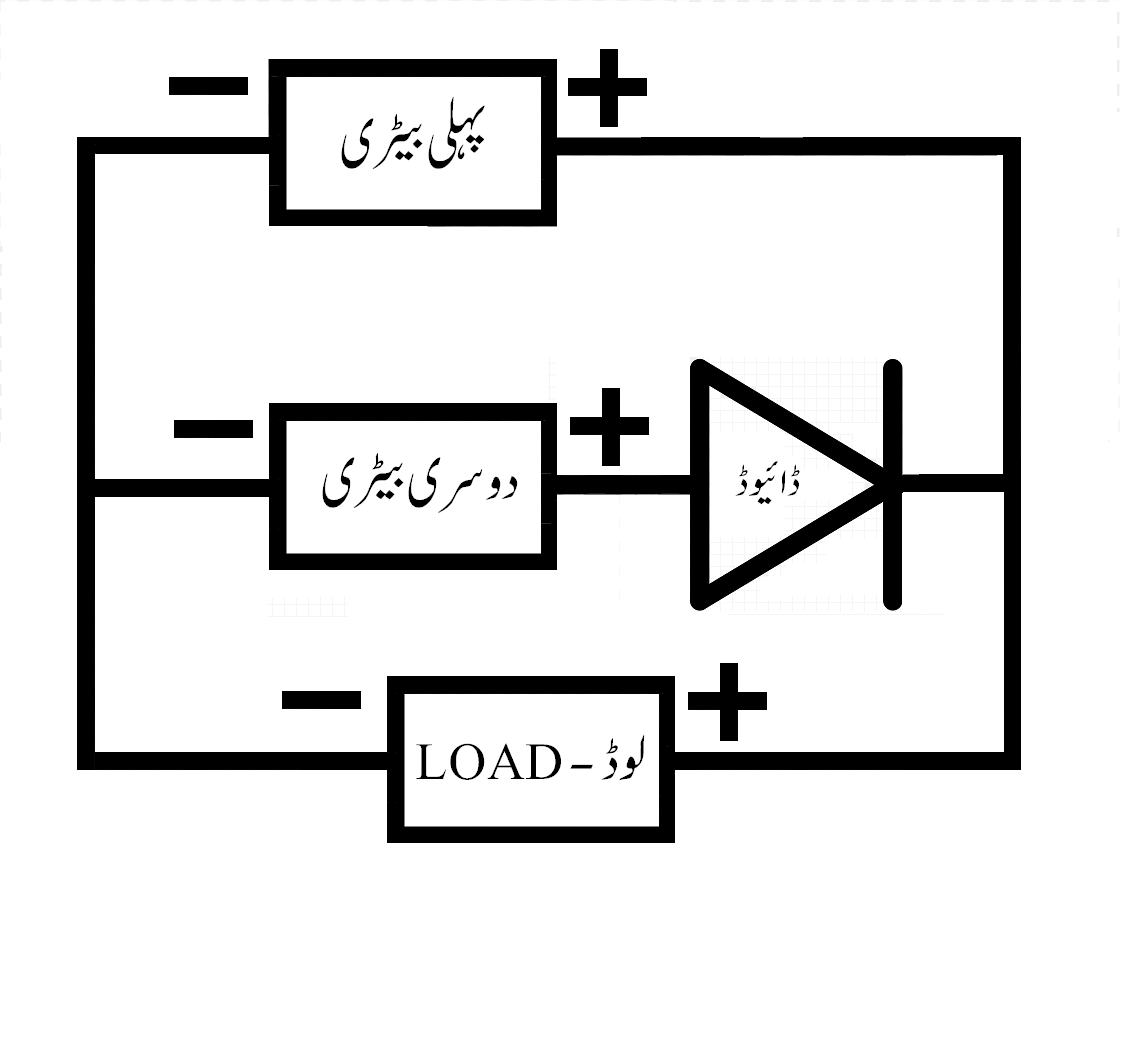 when two batteries, one with a diode, connected in parallel, supply current to a load, one battery exhaust earlier than other.